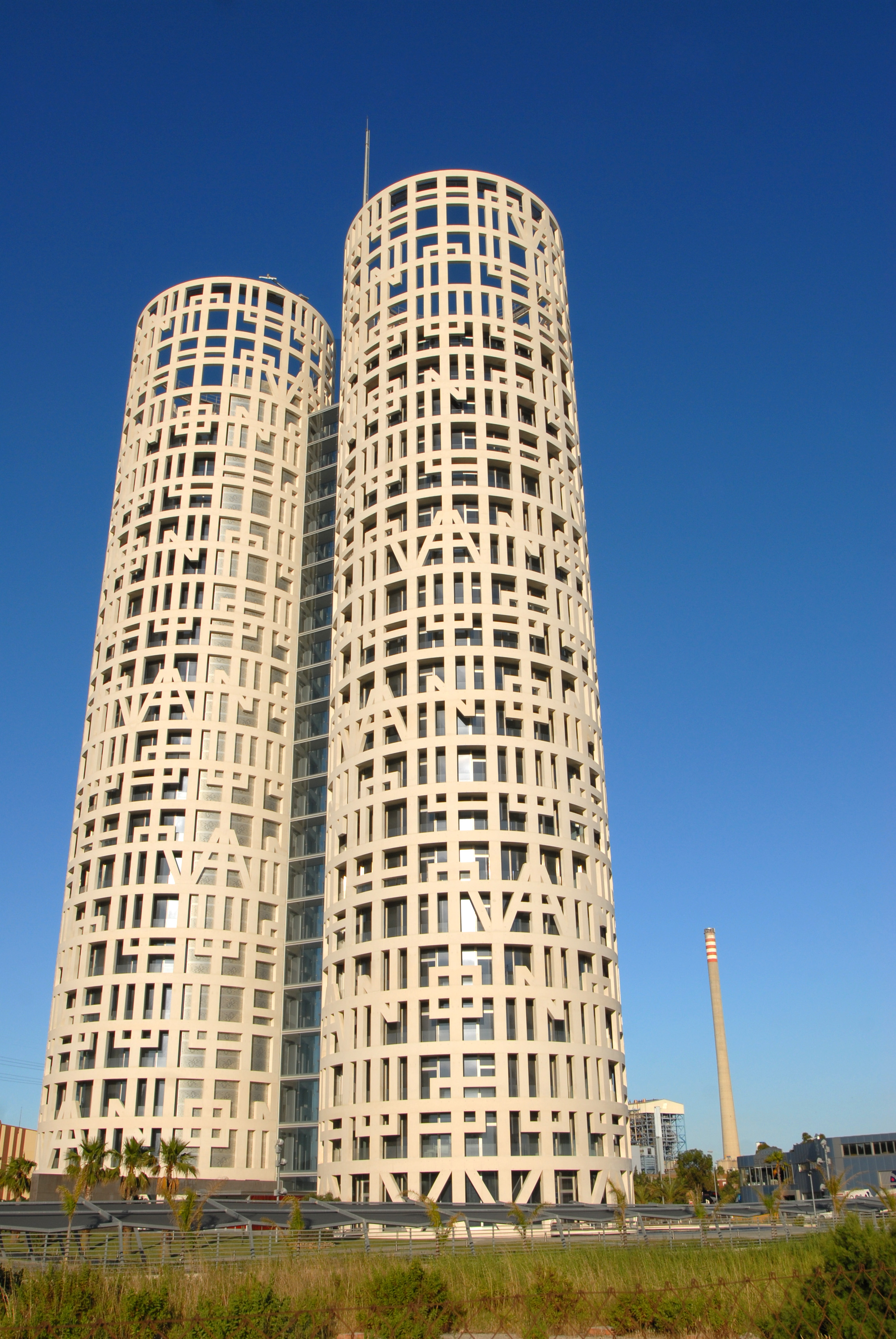 Torres Hércules in Algeciras